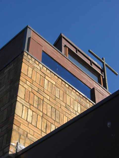 Detail of St Mary of the Angels Roman Catholic church, Camelon, Falkirk, Scotland. Designed by Gillespie, Kidd & Coia 1961.